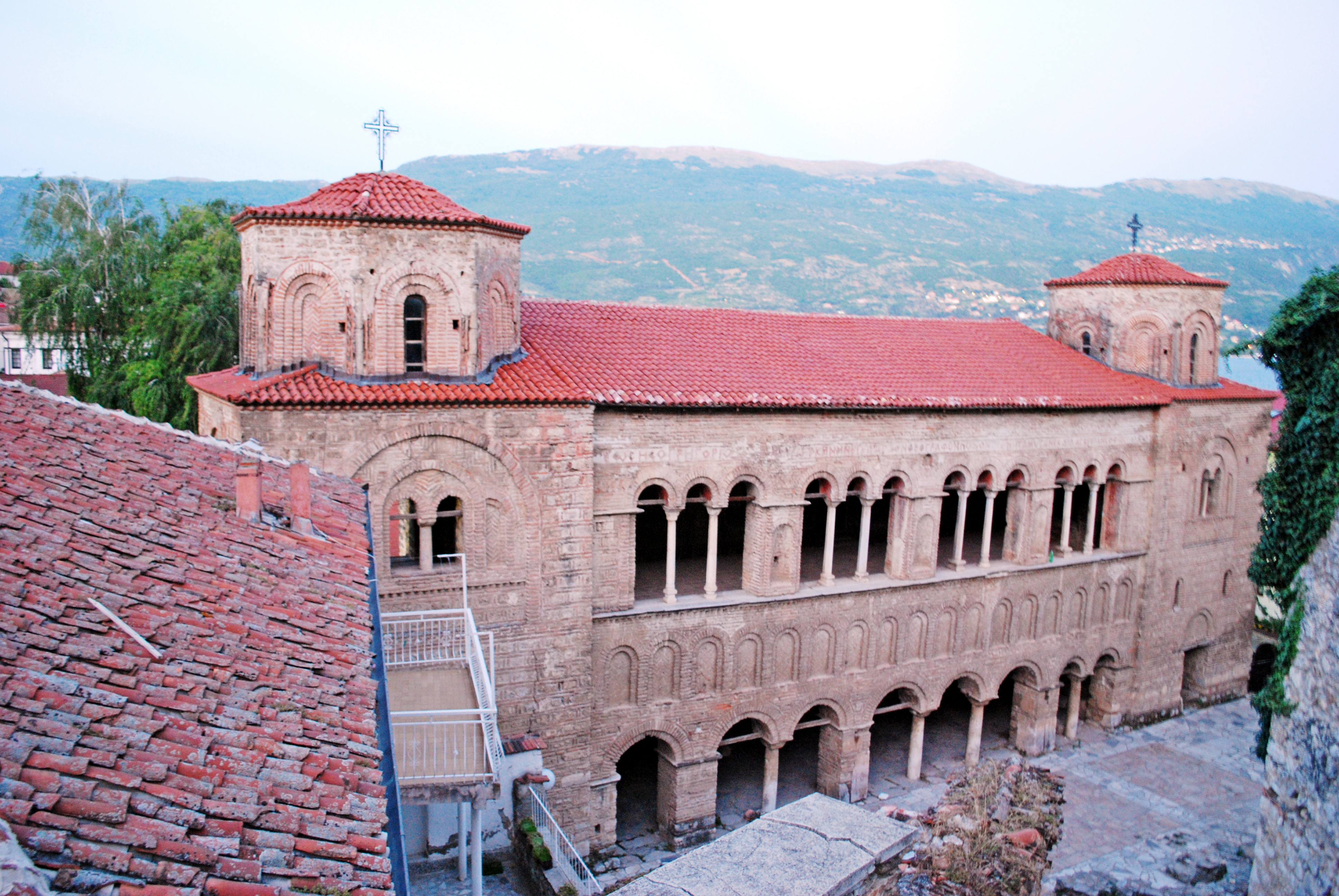 St. Sophia Church in Ohrid, Macedonia.